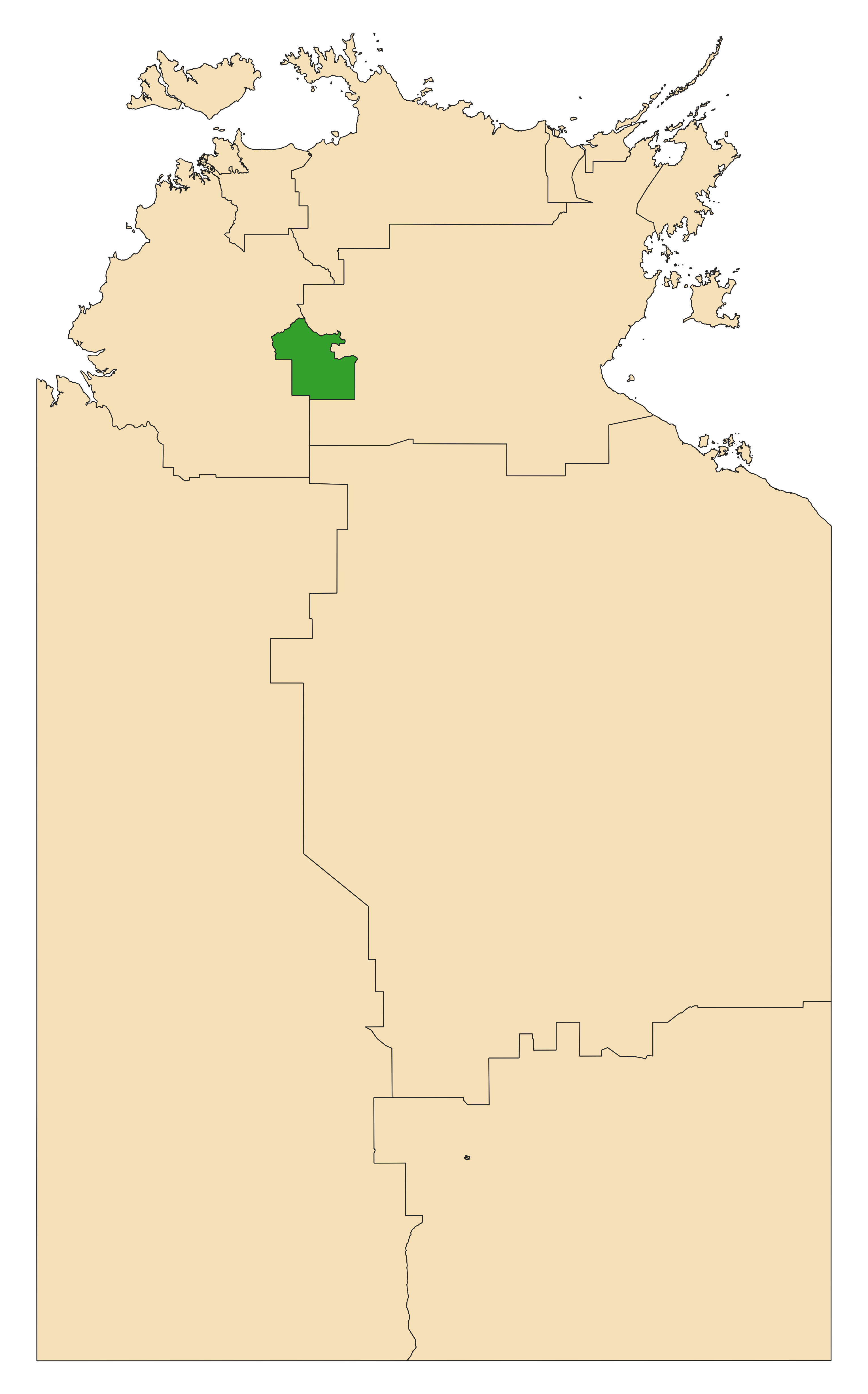 Location of the electoral division of Katherine (dark green) in the Northern Territory at the 2020 Northern Territory election